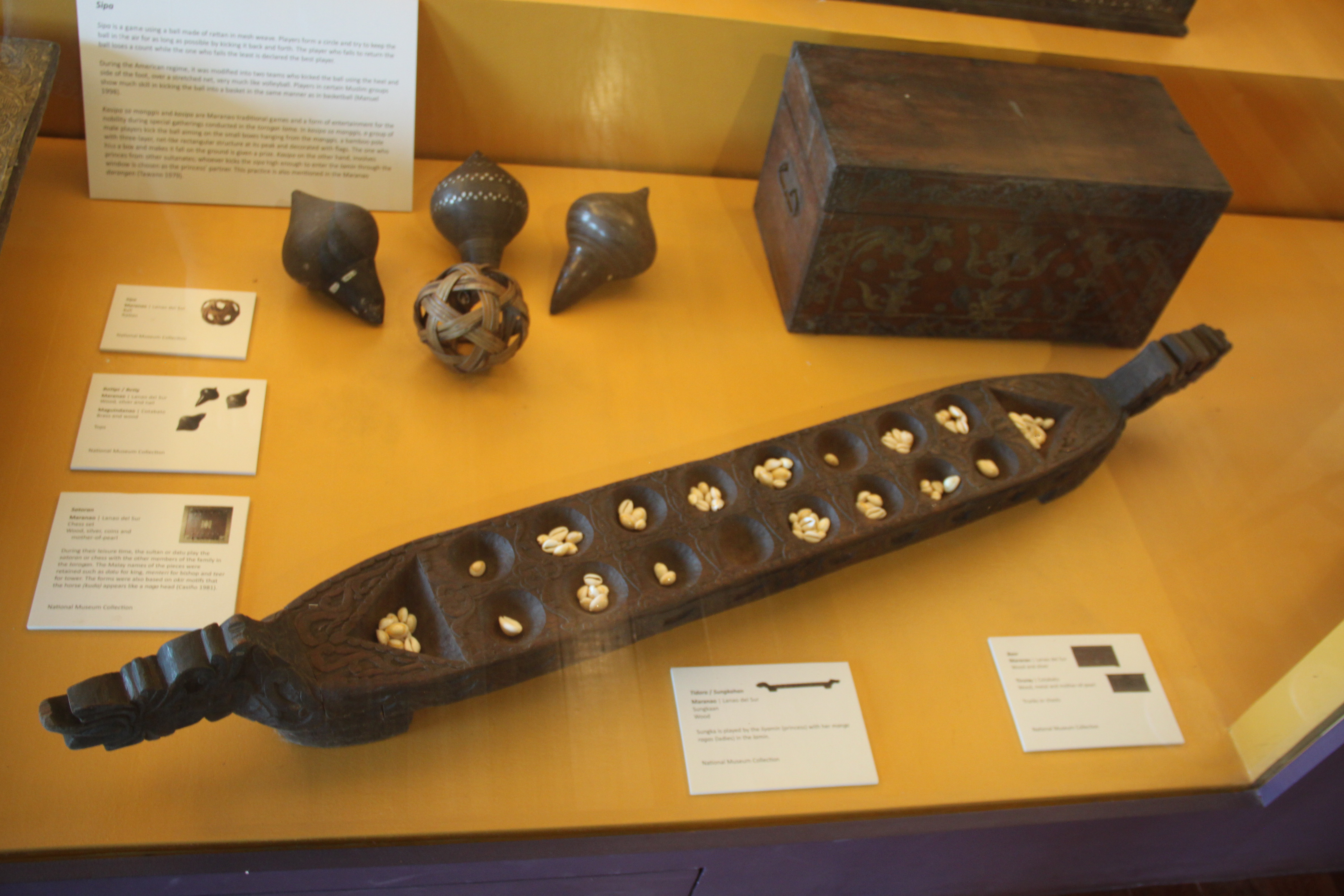 Bangsamoro and Lumad Cultures Gallery, Museum of the Filipino People, Rizal Park, Manila, Philippines. Complete indexed photo collection at . Showing kakasing (top), sipa (rattan wicker ball), and a sungka board